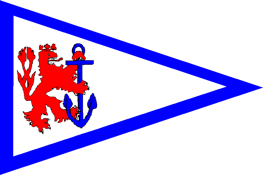 Burgee of the Dobson Yacht Club